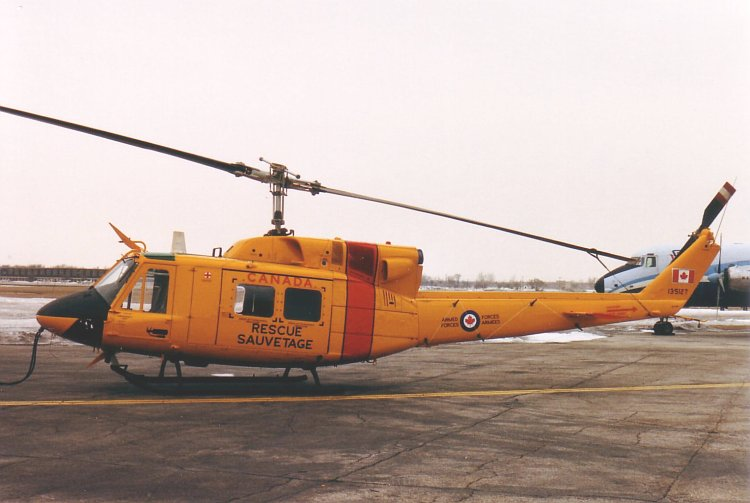 CH-135 Twin Huey 135127 from Base Rescue Goose Bay in the later SAR scheme used after 1986/88. I took this photo of a Canadian Forces CH-135 Twin Huey helicopter at Bristol Aerospace in 1987